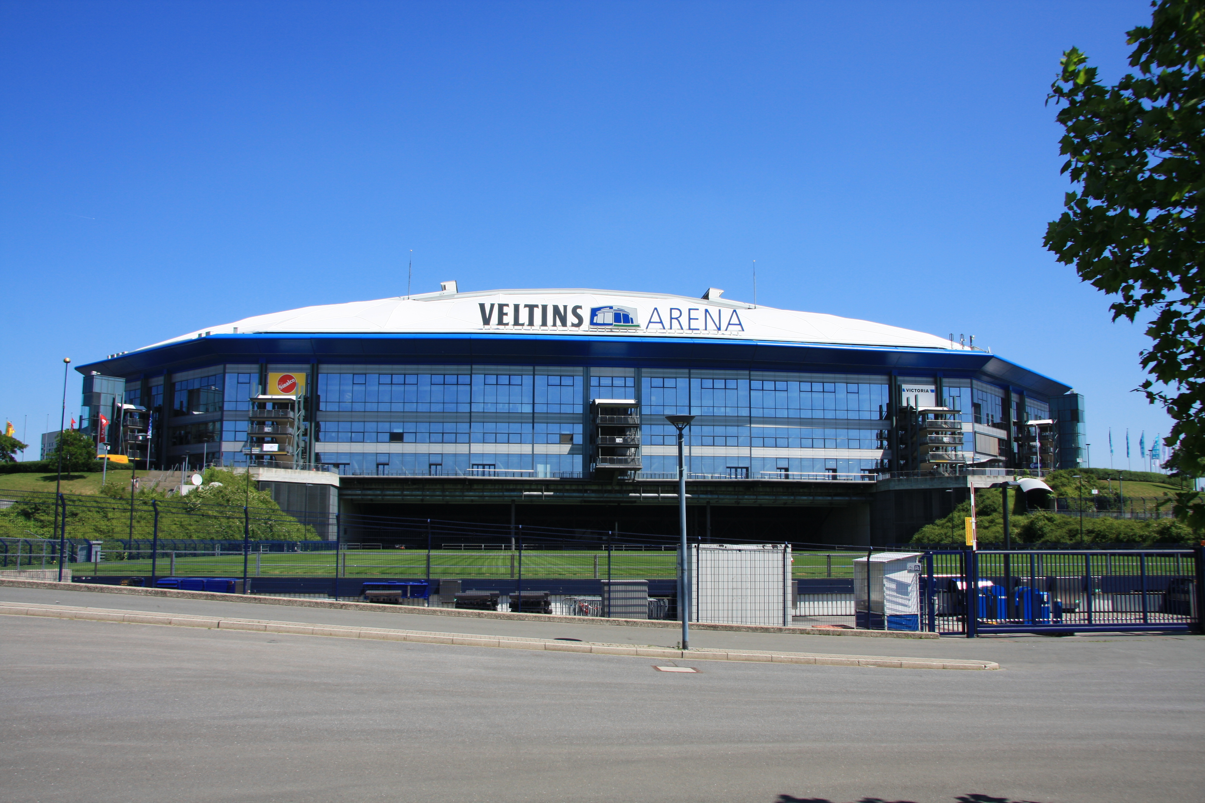 Arena AufSchalke